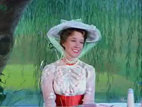 Screenshot of Julie Andrews from the trailer for the film Mary Poppins